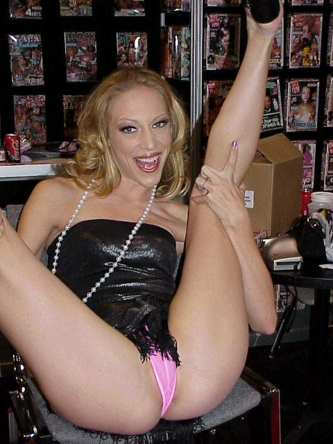 Samantha Sterlyng 2001